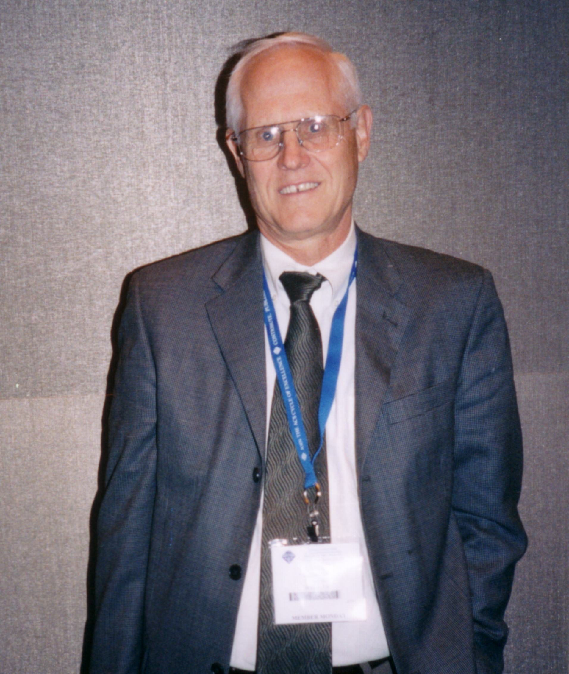 Larry Overman, organic chemist, at the 2006 Atlanta ACS meeting